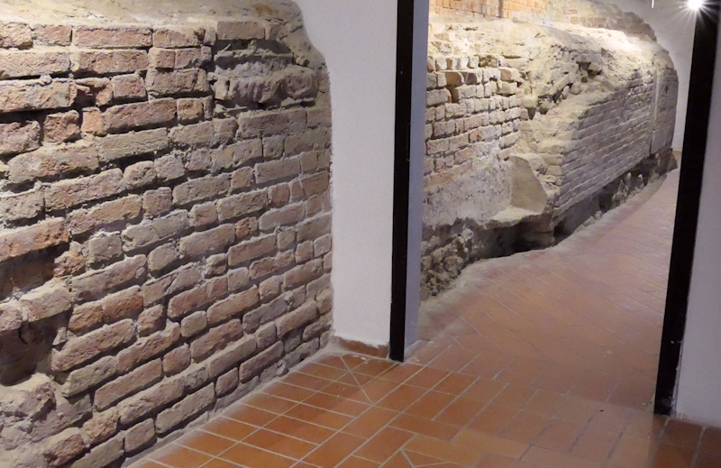 Ruins of the medieval walls of Crema (Italy)